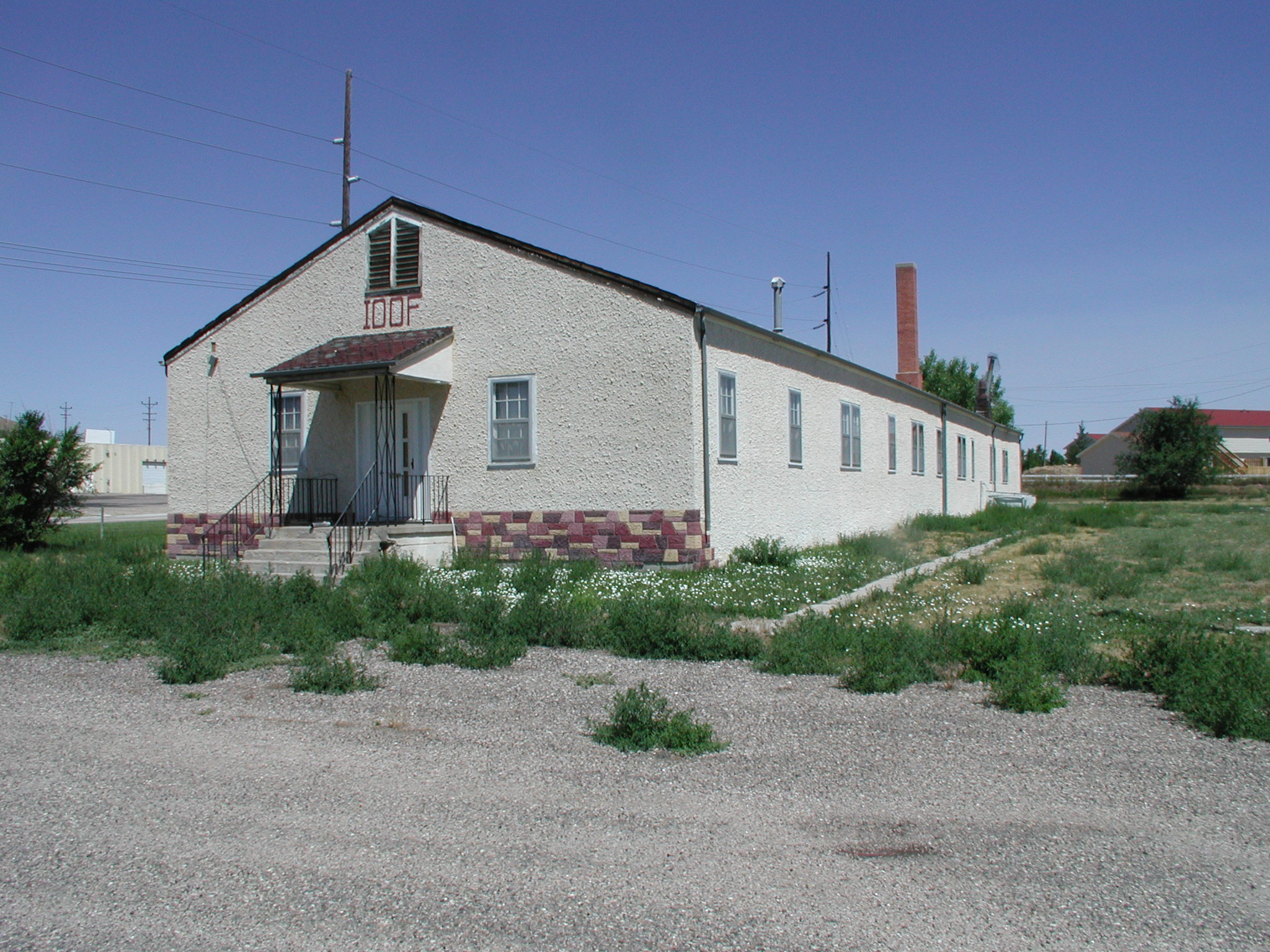 Officer's Club of the Douglas, Wyoming WWII POW Camp. The murals painted by the Italian POW artists are inside this building.